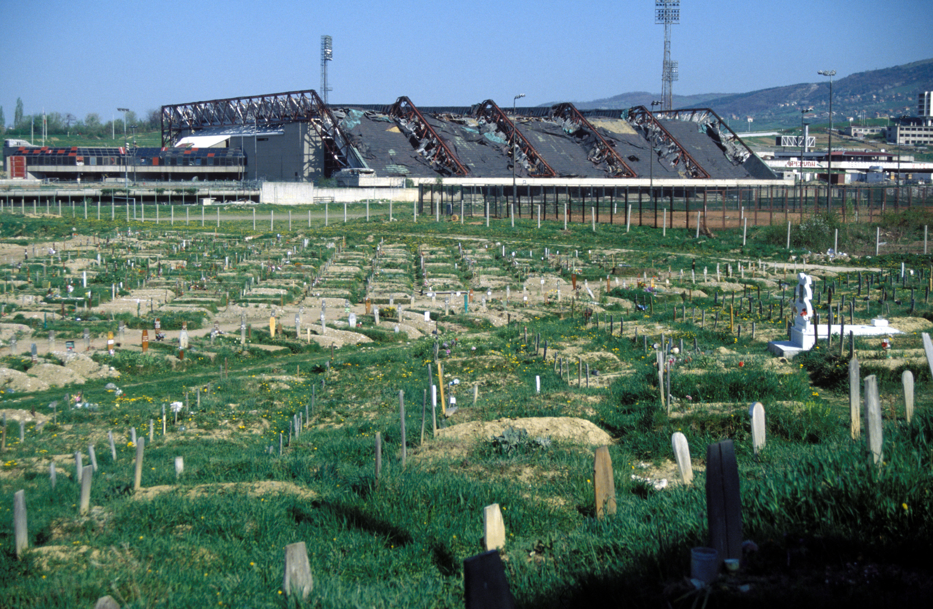 A graveyard has been established in what was once part of the Olympic Sports Complex in Sarajevo for the 1984 Winter Olympics.